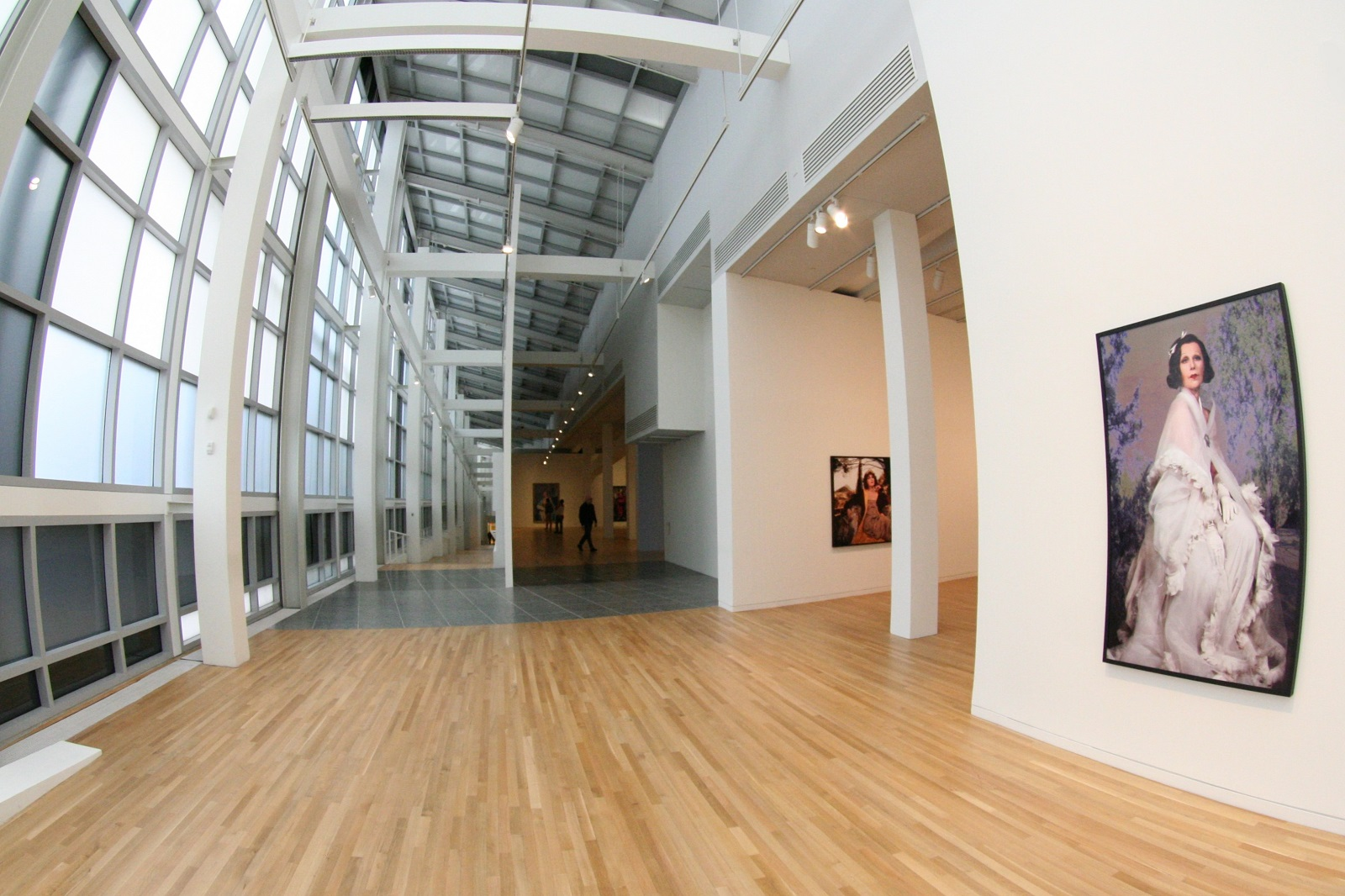 A hallway in the Wexner Center for the Arts, with an artwork by Cindy Sherman displayed on the wall at right.